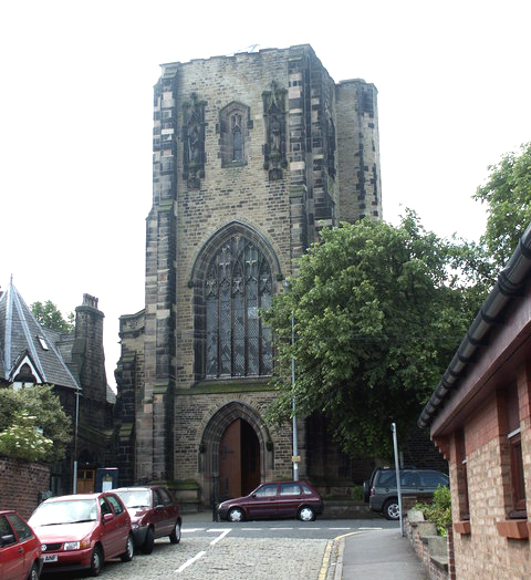 St Alban's parish church, Chester Road, Macclesfield, Cheshire, seen from the west from Hall Street